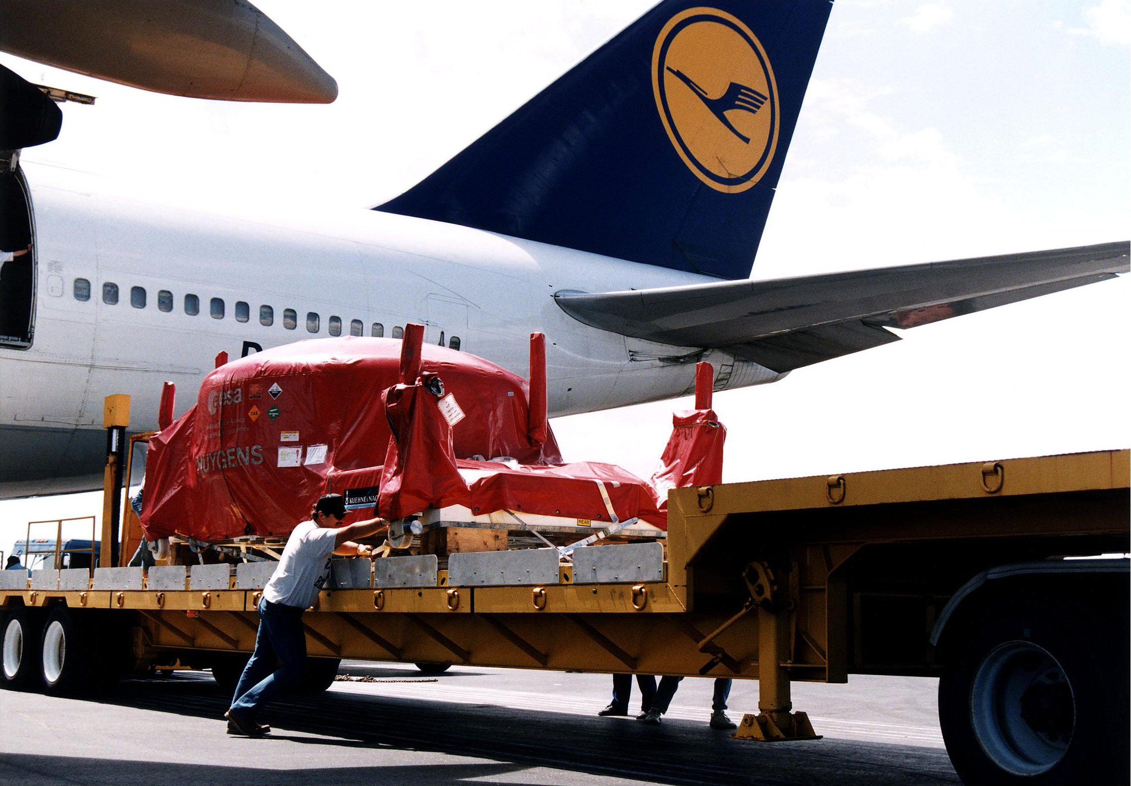 The Huygens probe, which will study the clouds, atmosphere and surface of Saturn's largest moon, Titan, as part of the Cassini mission to Saturn, is prepared for transport from the Skid Strip, Cape Canaveral Air Station (CCAS), after being off-loaded from a plane. The probe was designed and developed for the European Space Agency (ESA) by a European industrial consortium led by Aerospatiale as prime contractor. Over the past year, it was integrated and tested at the facilities of Daimler Benz Aerospace Dornier Satellitensysteme in Germany. The probe will be mated to the Cassini orbiter, which was designed and assembled at NASA's Jet Propulsion Laboratory in California. The Cassini launch is targeted for October 6 from CCAS aboard a Titan IVB/Centaur expendable launch vehicle. After arrival at Saturn in 2004, the probe will be released from the Cassini orbiter to slowly descend through the Titan atmosphere to the moon's surface